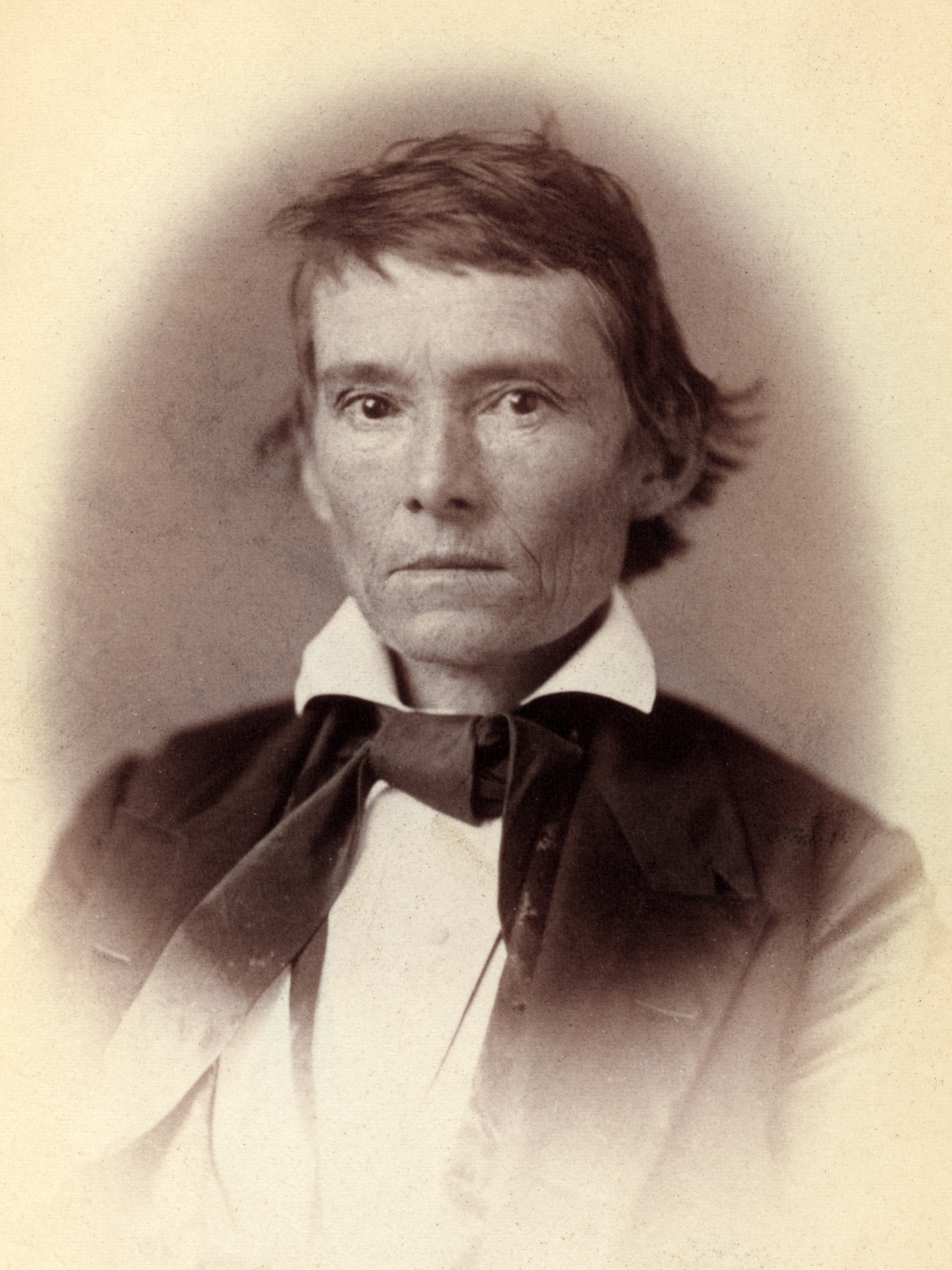 Alexander H. Stephens, Representative from Georgia, Thirty-fifth Congress, half-length portrait